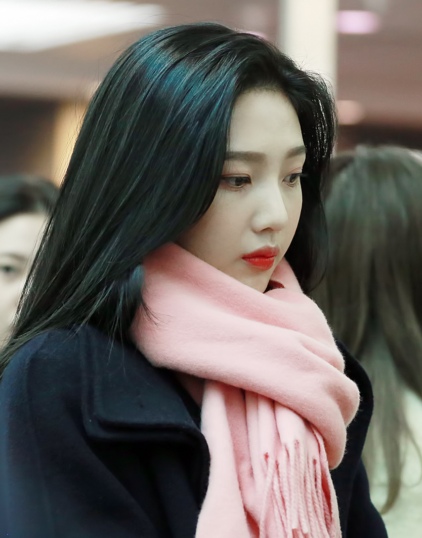 Joy Park at Incheon Airport on January 5, 2019.